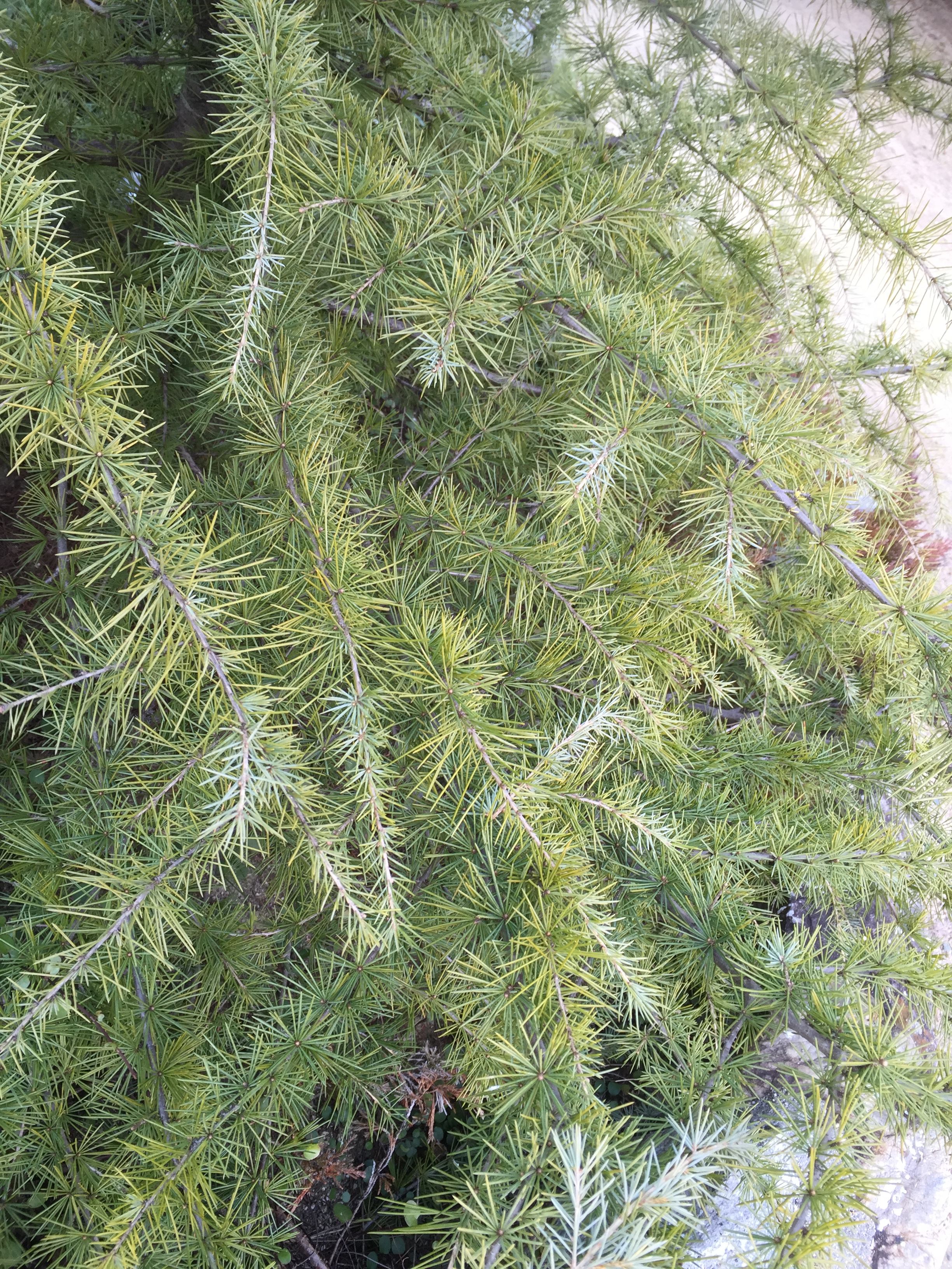 leaves of the Cedrus deodara "silverspring"